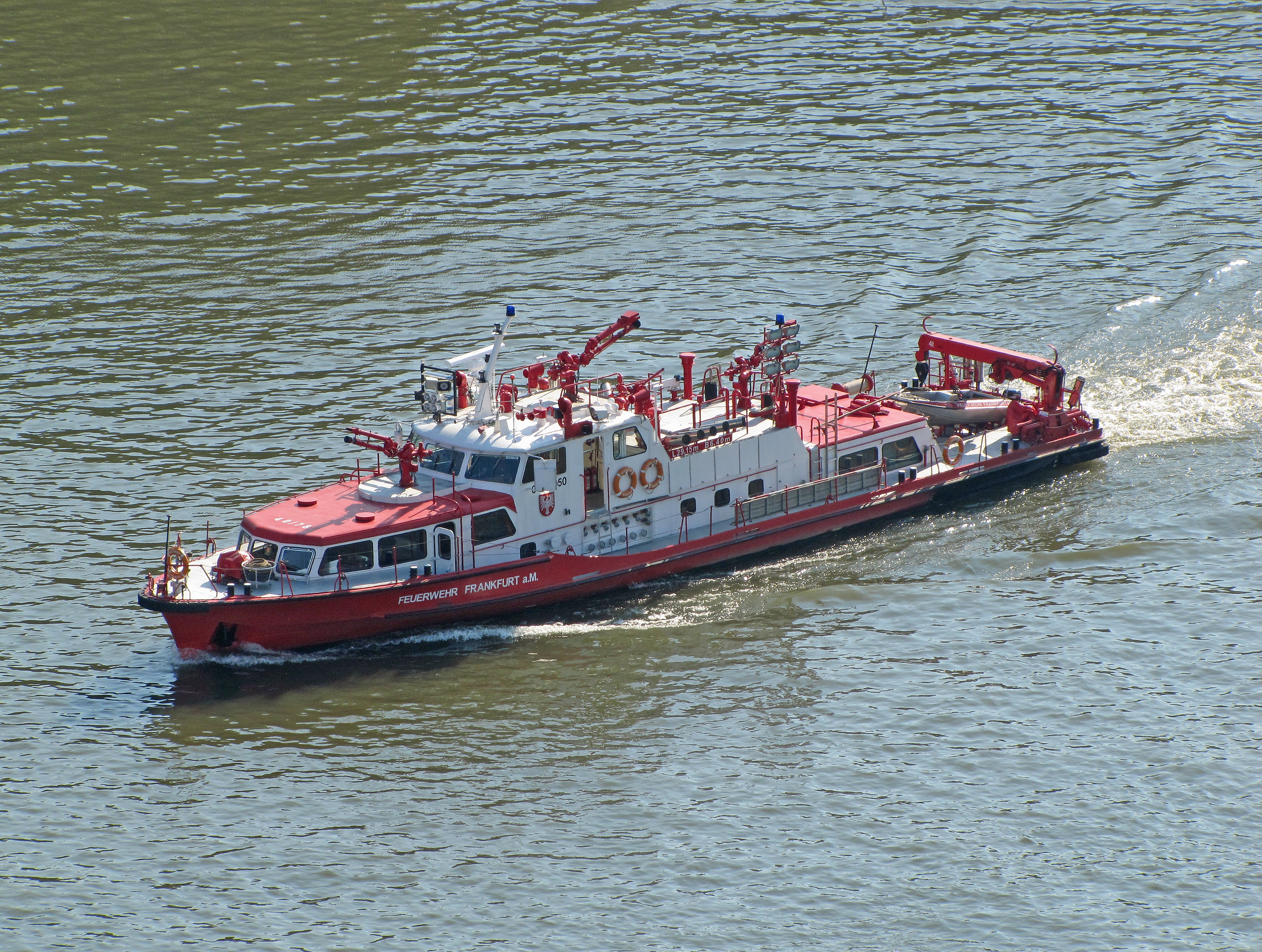 Fireboat of the fire brigade, Frankfurt am Main at Main river, Germany.